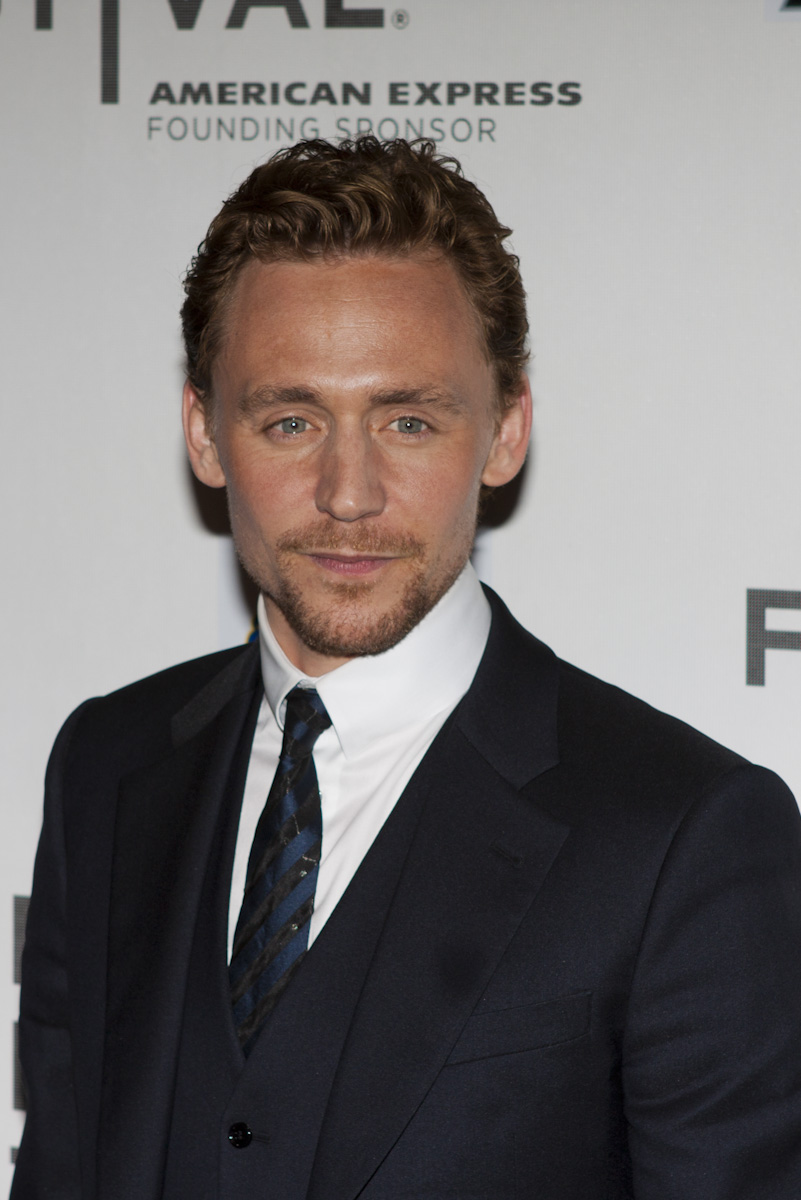 Tom Hiddleston - Tribeca Film Festival 2012: Avengers NY Premiere (28 April 2012 BMCC NYC)